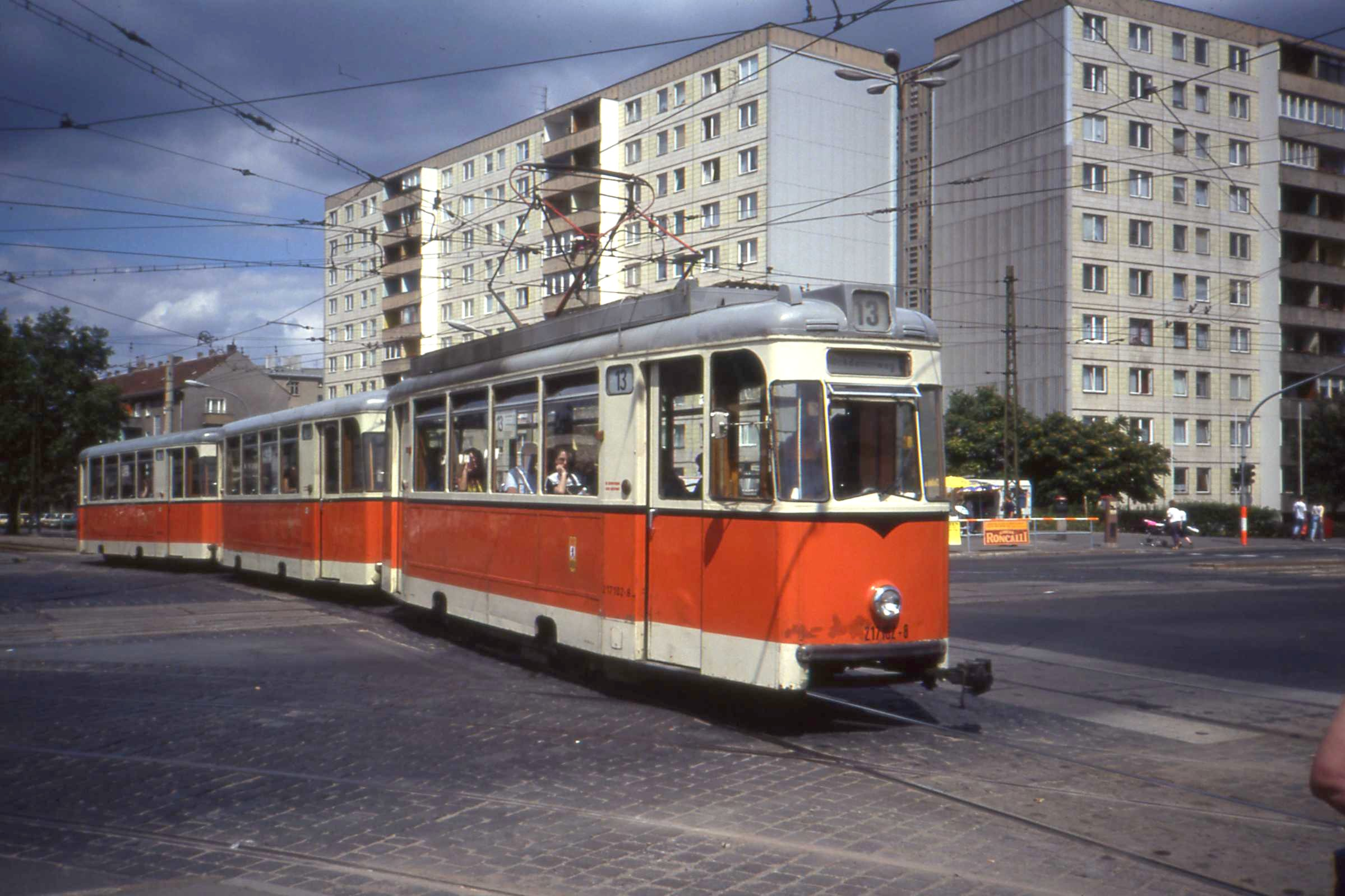 REKO Motor car no 217 102-8 and two trailers on Route 13 in East Berlin. Seen in the then Dimitroffstrasse. The 13 was a rare REKO route which (almost) connected the three car lines to the north of East Berlin with those centred around Koepenick. The teminal points of the 13 then were U-Bahnhof Dimitroffstrasse in Schoenhauser Allee, and Blockdamm in no-mansland betwen Lichtenberg , Rummelsberg and Karlshorst, but a very industrial area. The destination blind reads Blockdammweg.